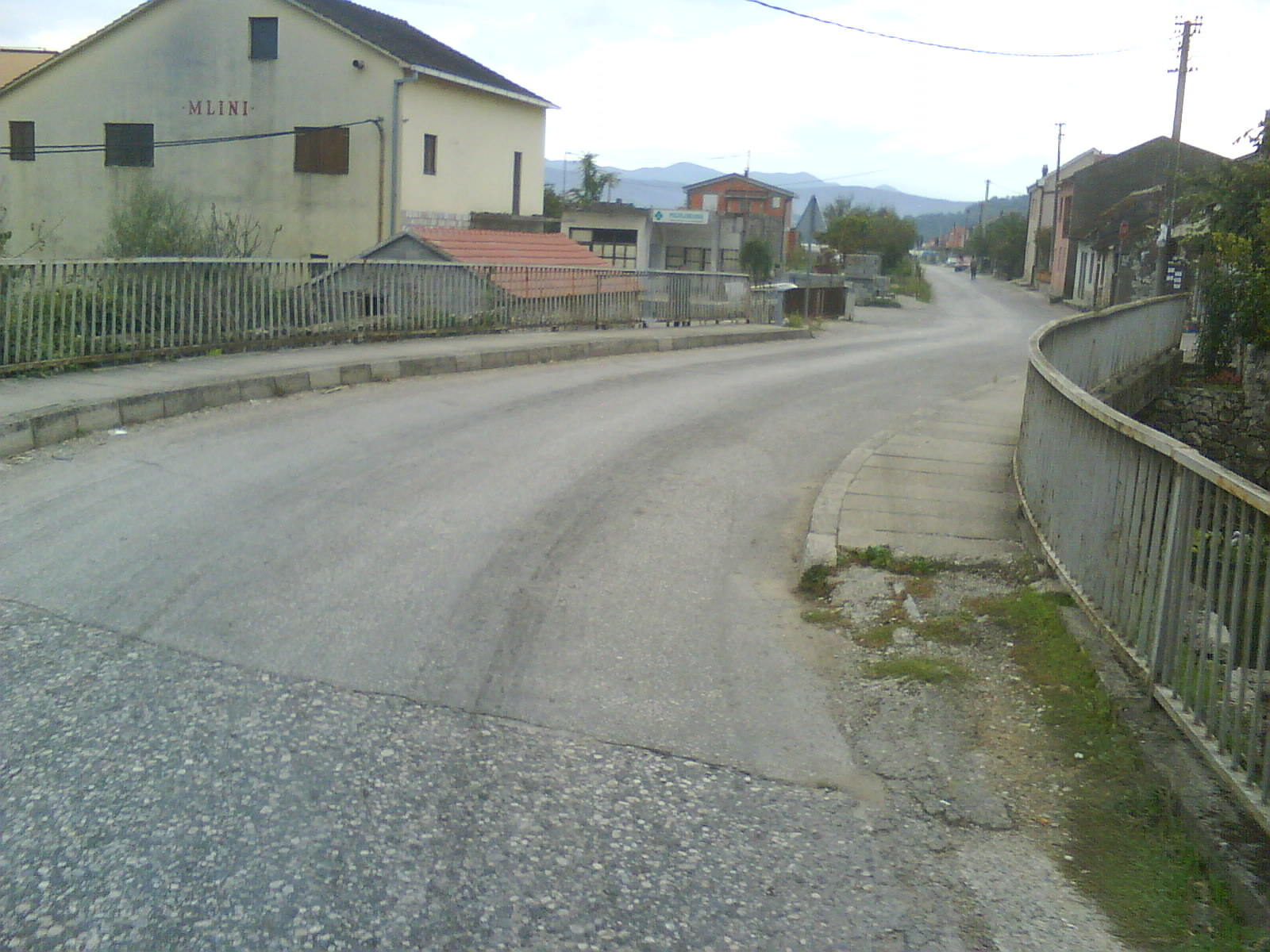 Struge village in municipality of Čapljina